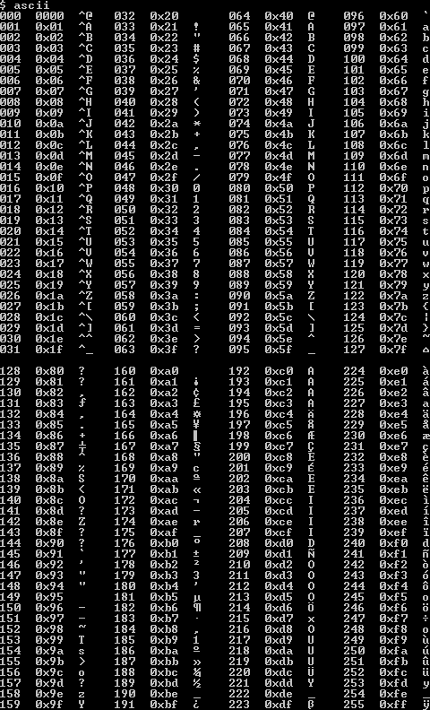 The result of the command "ascii" in Cygwin. Largely follows Windows-1252, but makes several graphical substitutions for characters evidently not available in the terminal font used.